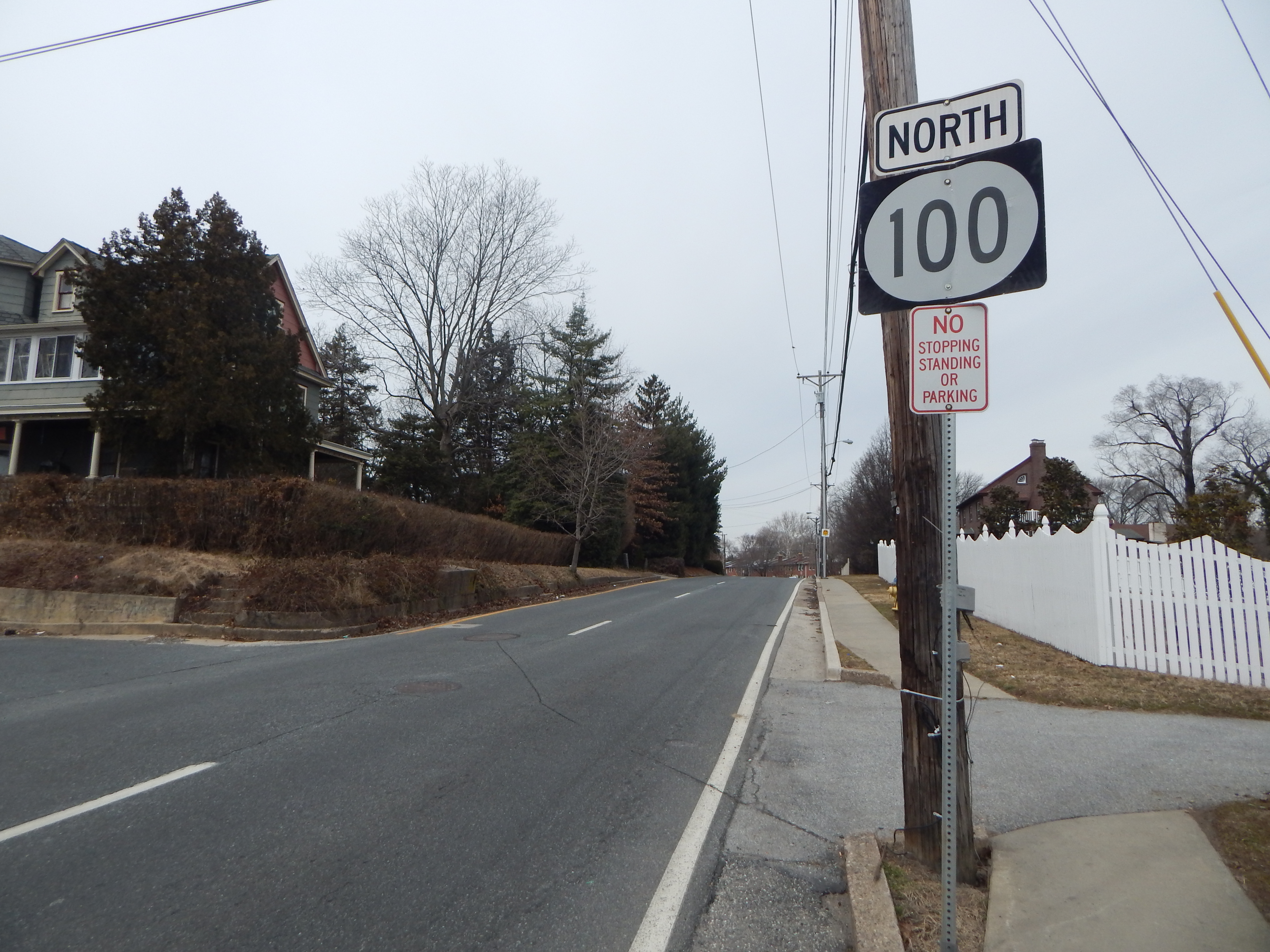 Delaware Route 100 in Elsmere, Delaware.